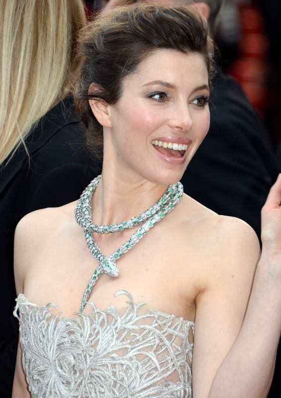 Jessica Biel at the Cannes film festival